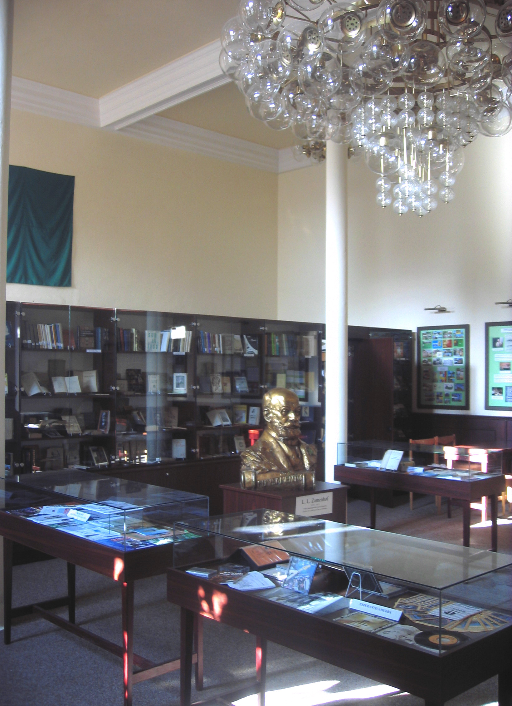 Esperanto Museum in Svitavy (Czech Republic), situated in Ottendorfer House near the Main Square